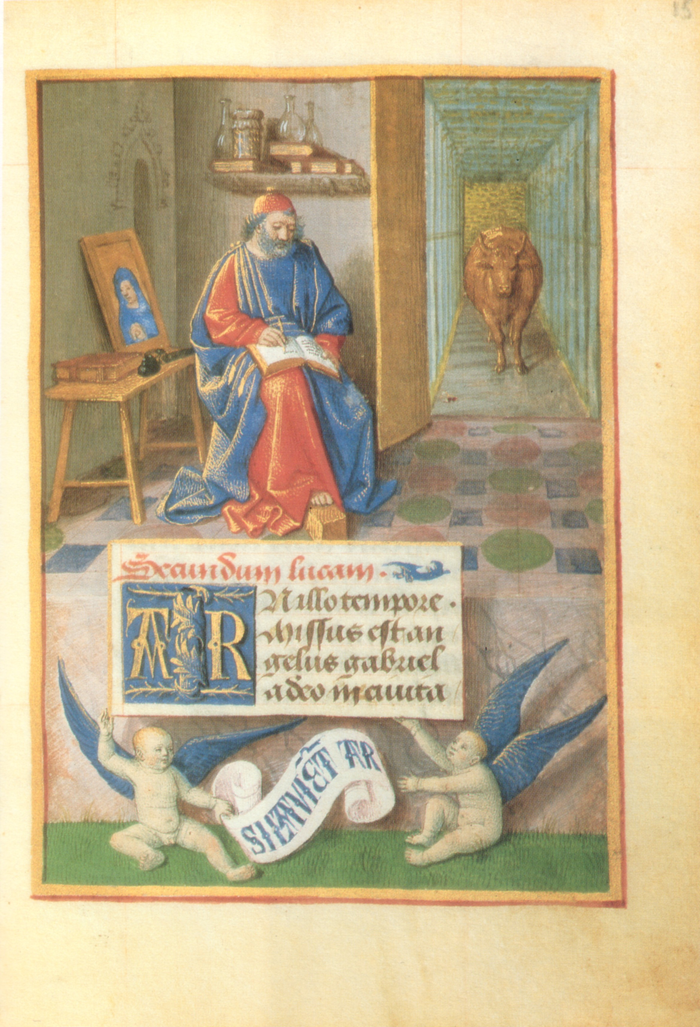 New York, Pierpont Morgan Library, M. 834, fol. 15